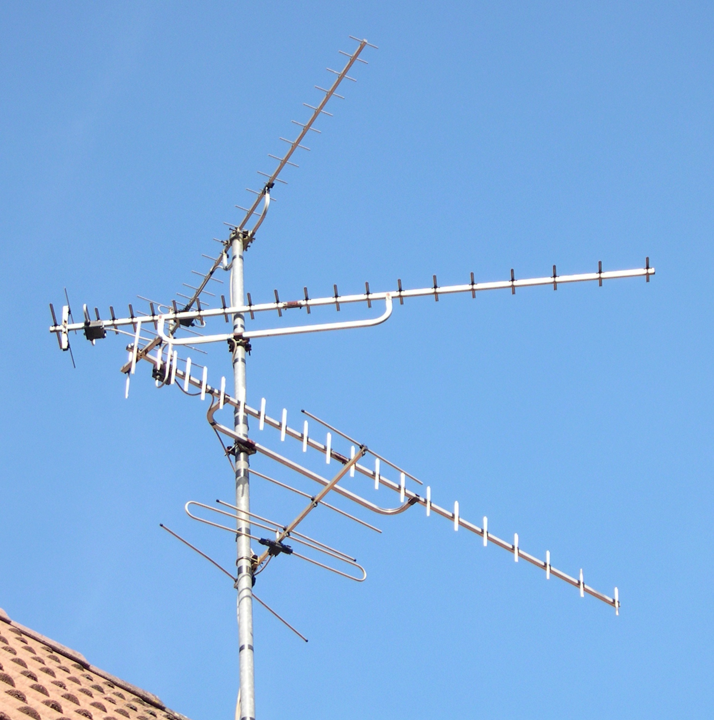 Three UHF Yagi terrestrial television antennas on a house in France, and an older 5 element VHF analog television antenna in the foreground. The lowest UHF antenna is mounted with elements vertical for vertical polarization. These are very high gain antennas with 21 elements: 19 directors, a folded dipole driven element and a reflector composed of 3 elements on a vertical boom. Each antenna is pointed at a different TV station.